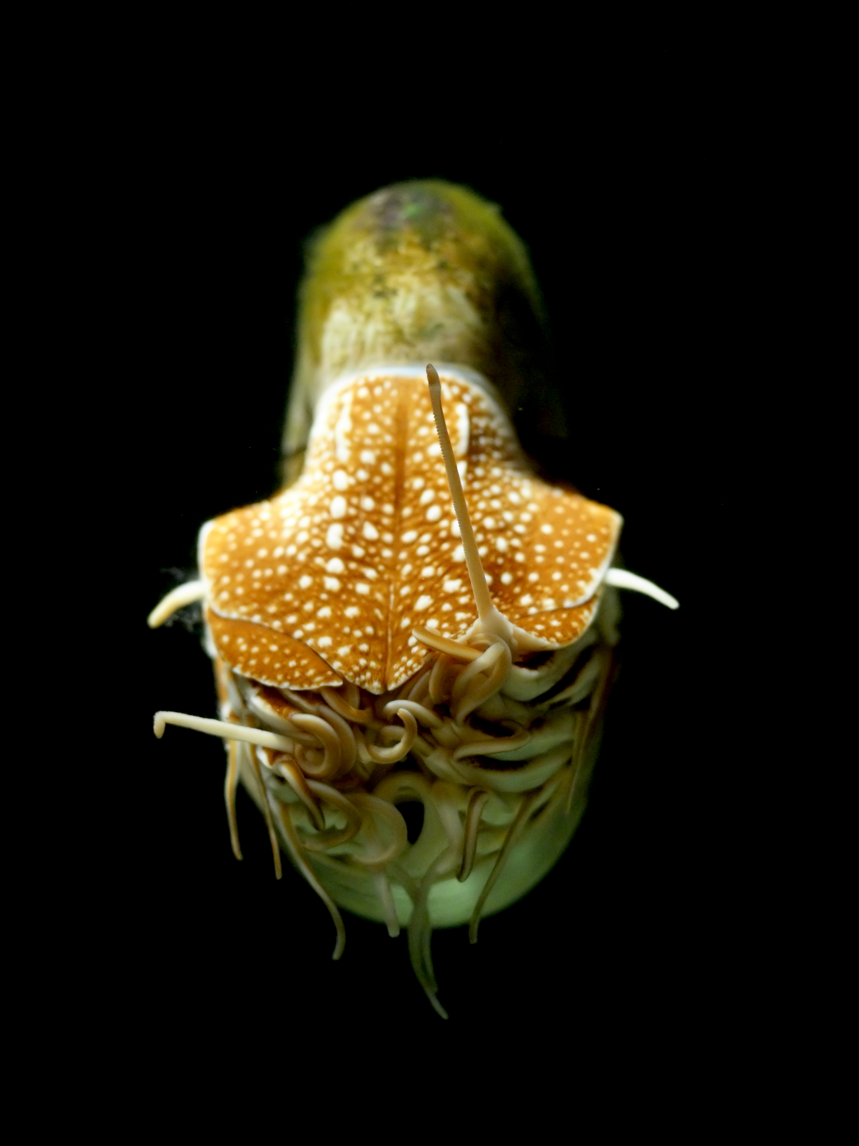 Chambered Nautilus, at Pairi Daiza, Brugelette, Belgium